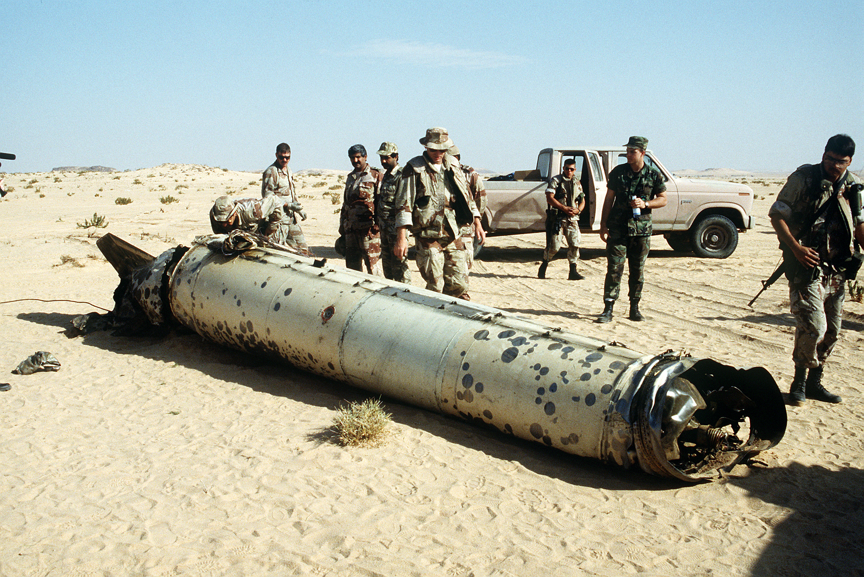 Military personnel examine a Scud missile shot down in the desert by an MIM-104 Patriot tactical air defense missile during Operation Desert Storm.